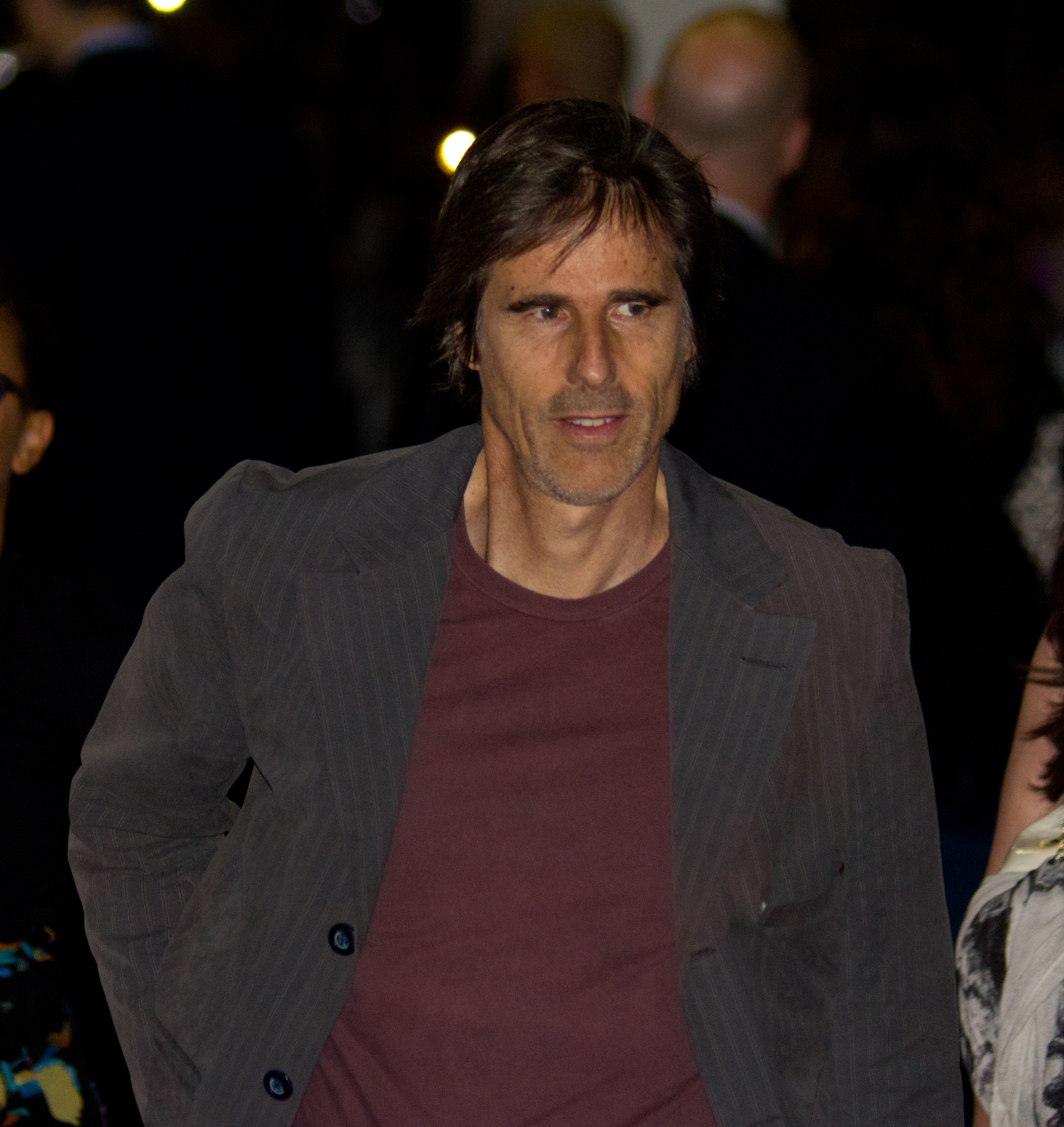 Director Walter Salles at the Toronto International Film Festival premiere of "On The Road"